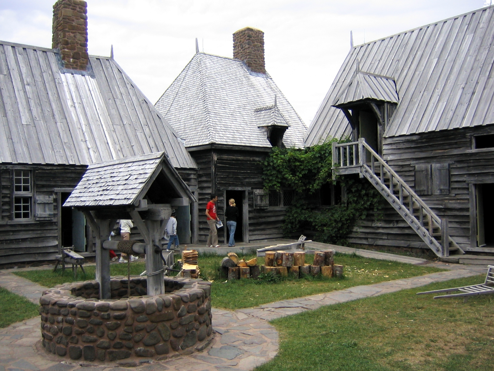 Habitation at Port-Royal, Nova Scotia